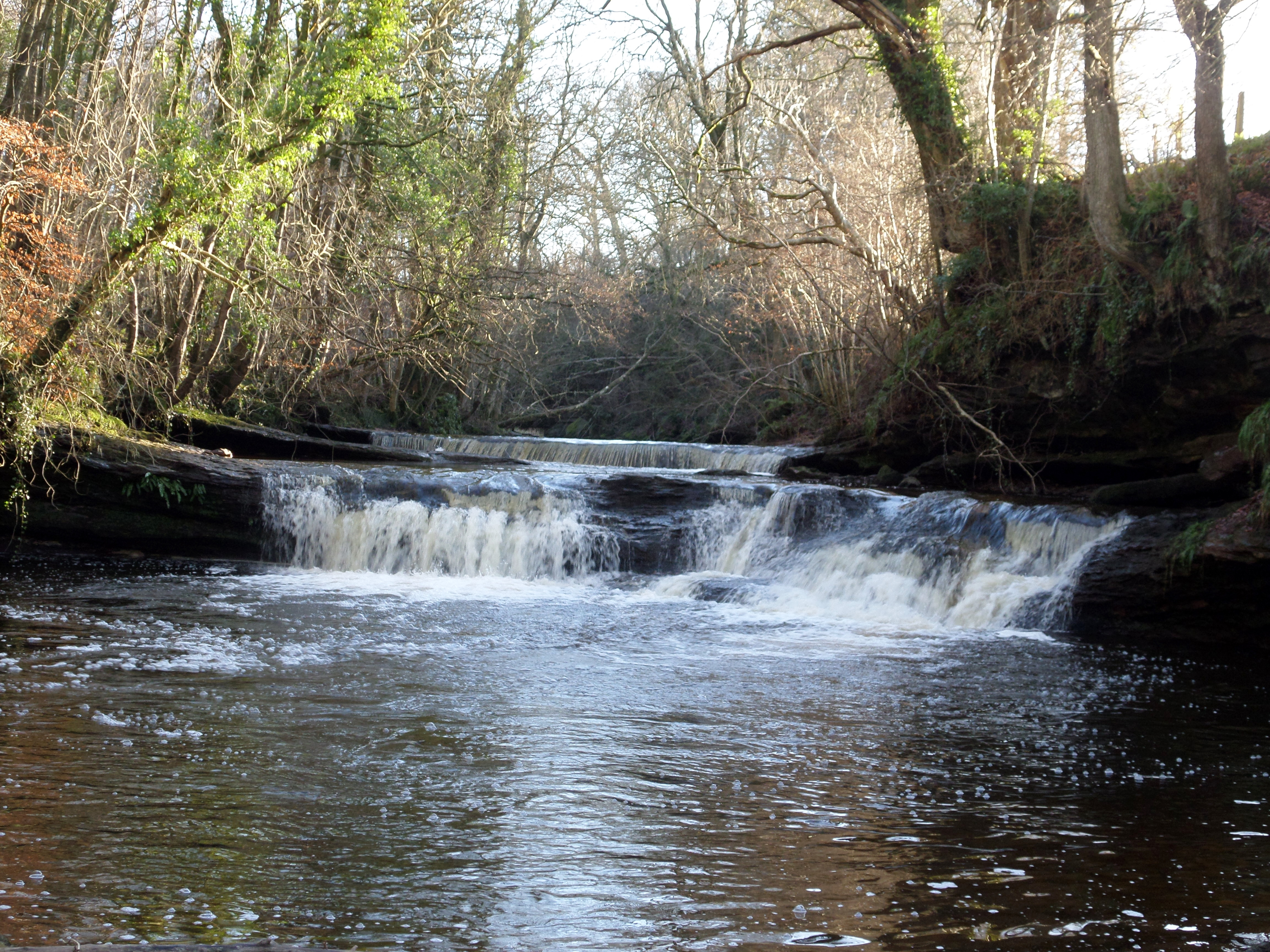 The Craigmill Waterfalls on the Cessnock Water, East Ayrshire, Scotland.